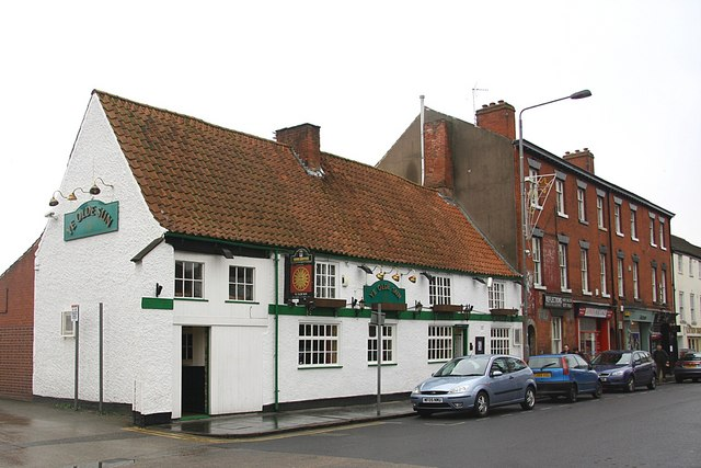 Ye Olde Sun Inn Timber framed, possibly 16th century Inn on Chapelgate